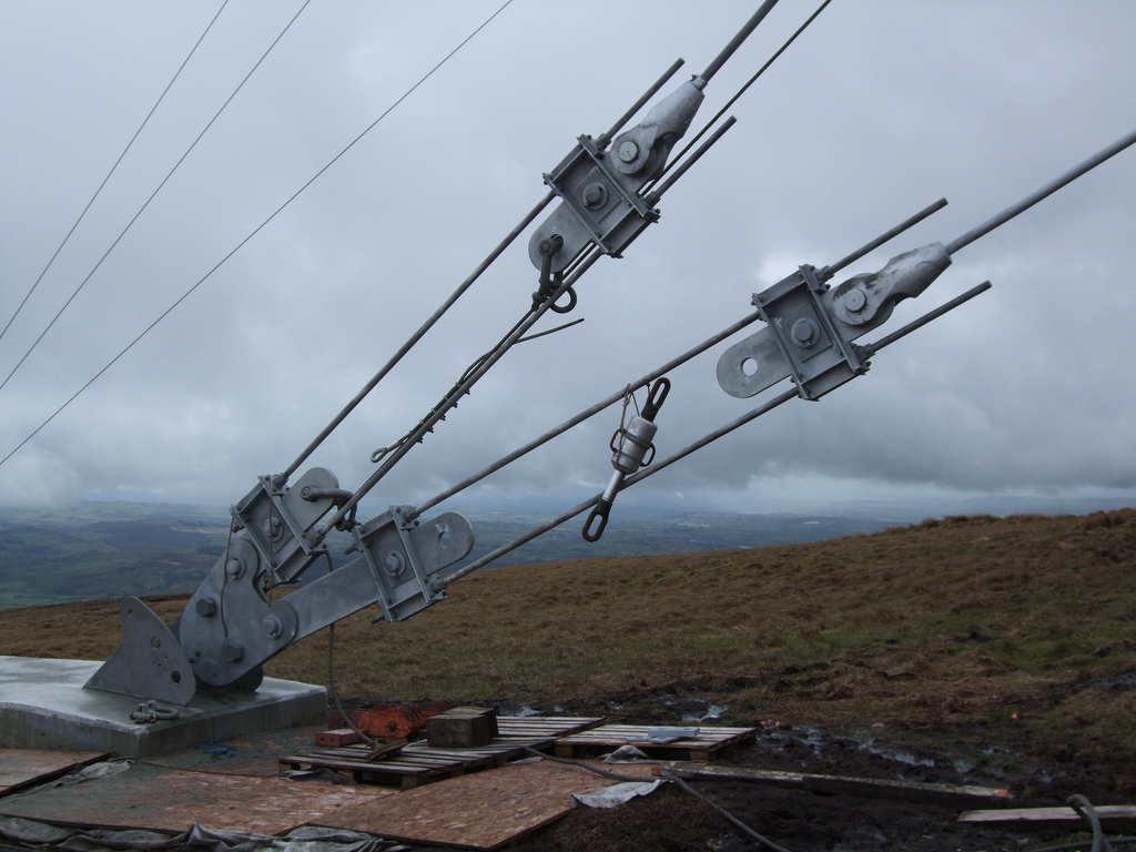 Cable stay tying down the RTÉNL Transmitter at Mullaghanish.